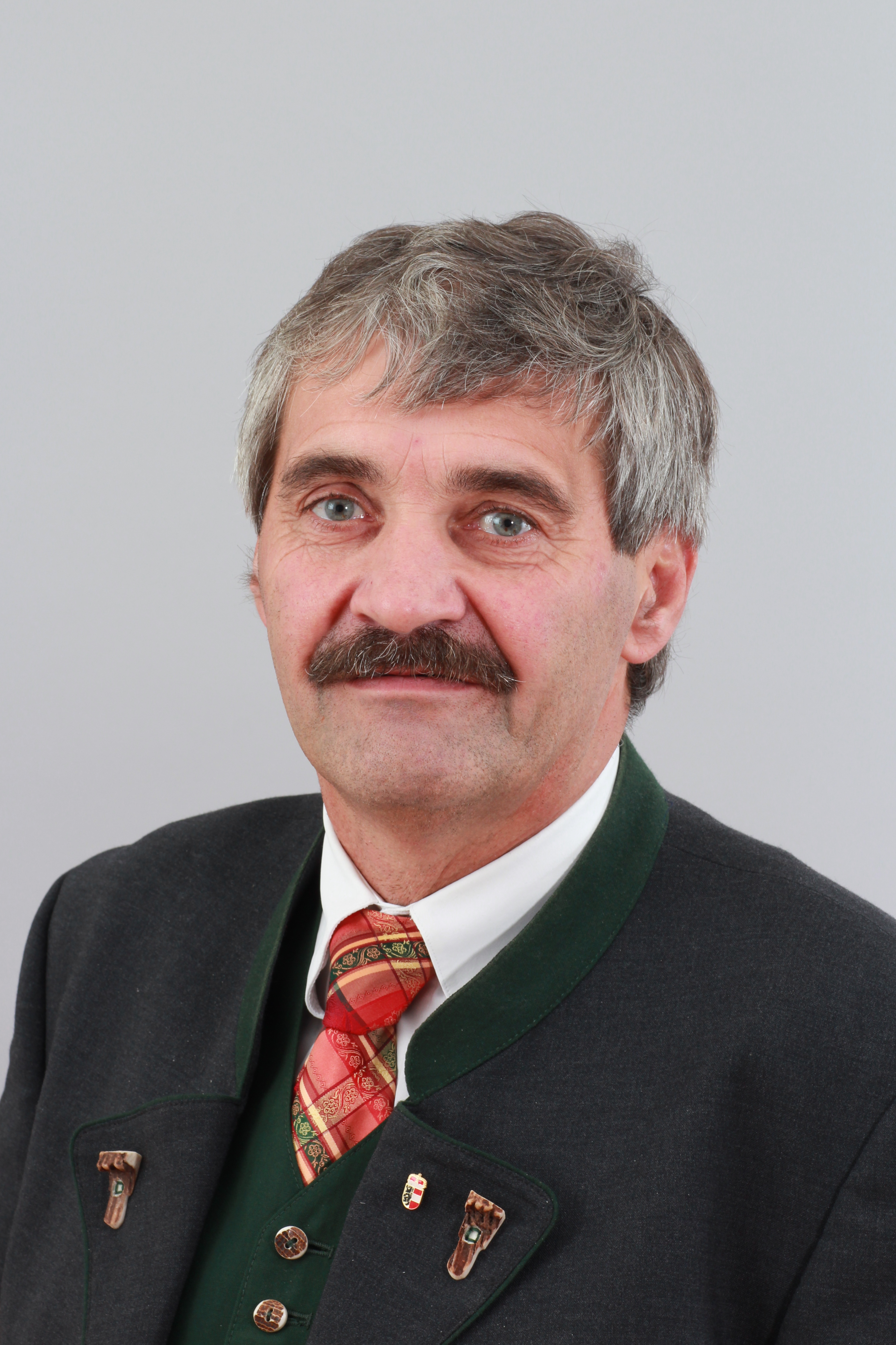 Hans Scharfetter, austrian politican in Salzburg parliament Wikipedia im Landtag – Salzburg 31. Oktober 2012 in SalzburgDieses Foto wurde im Rahmen des Projektes „Wikipedia im Landtag“ erstellt.